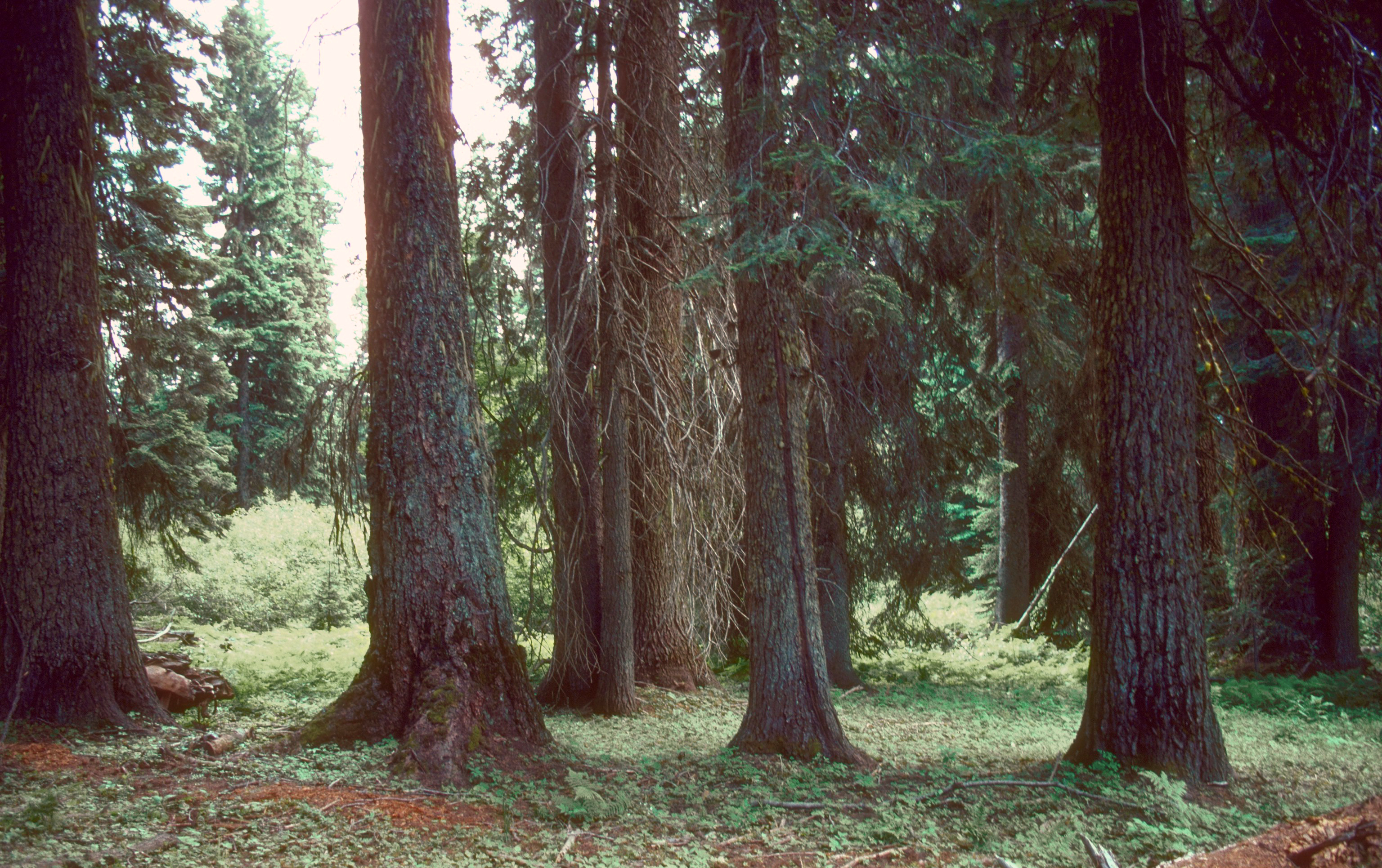 Abies grandis subsp. idahoensis old-growth trees. Near Mottet Creek, Walla Walla Ranger District, Umatilla National Forest, Union County, Oregon